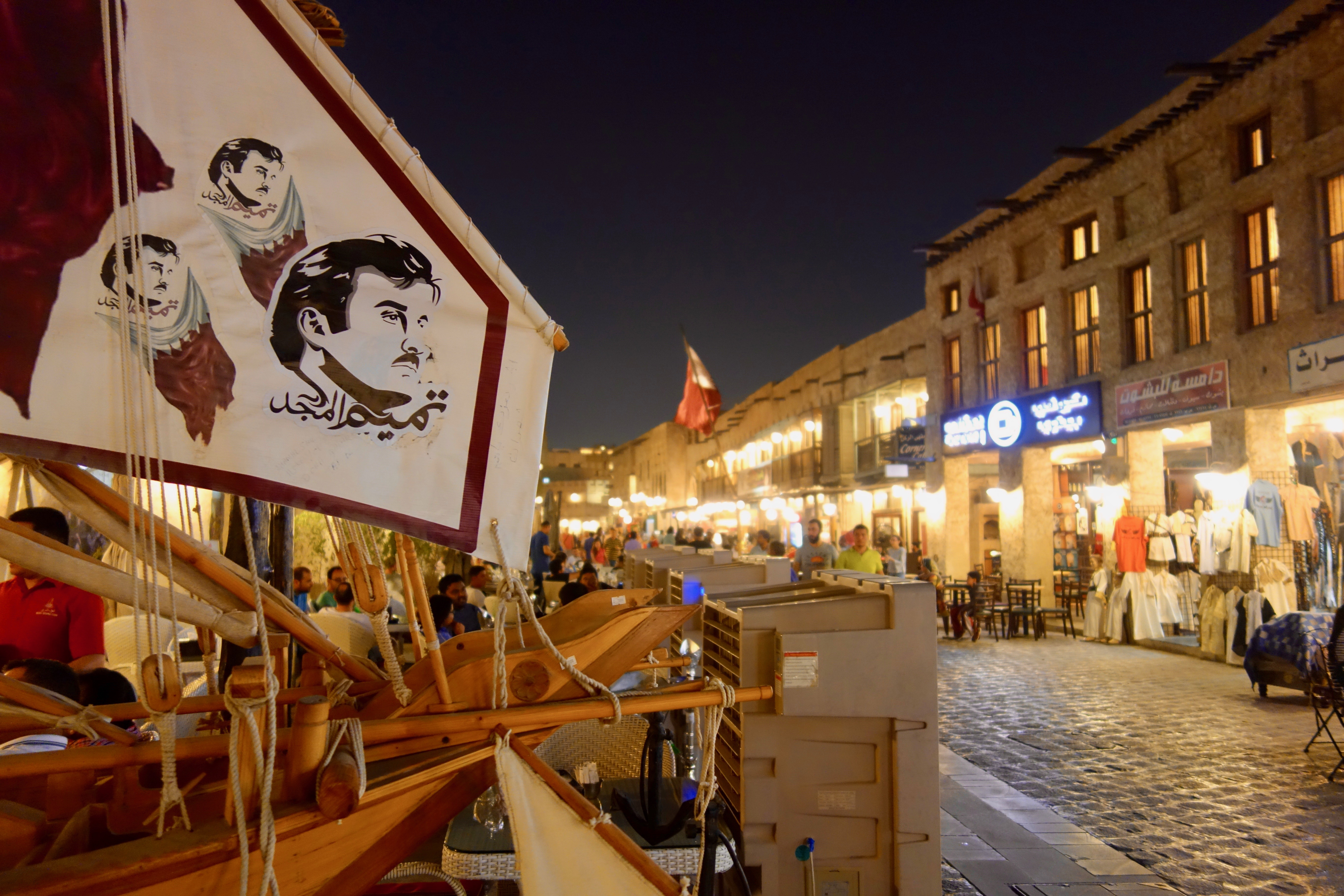 A dhow with its sail adorning the 'Tamim Almajd' image in Souq Waqif, Doha, Qatar.